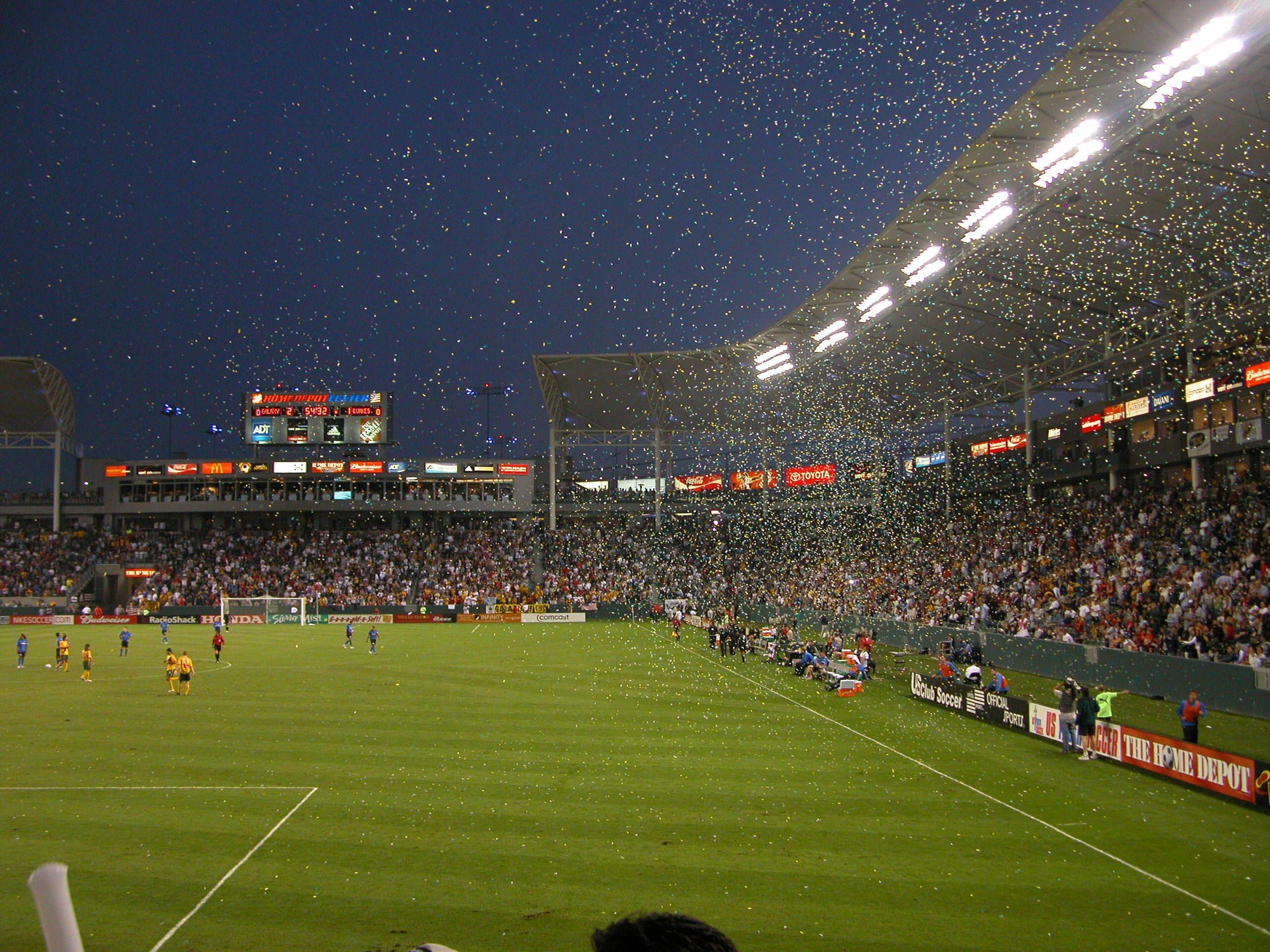 Home Depot center - Galaxy scored a goal. The crowd at the Home Depot Center throw confetti after the LA Galaxy score in a 2004 game against the San Jose Earthquakes.